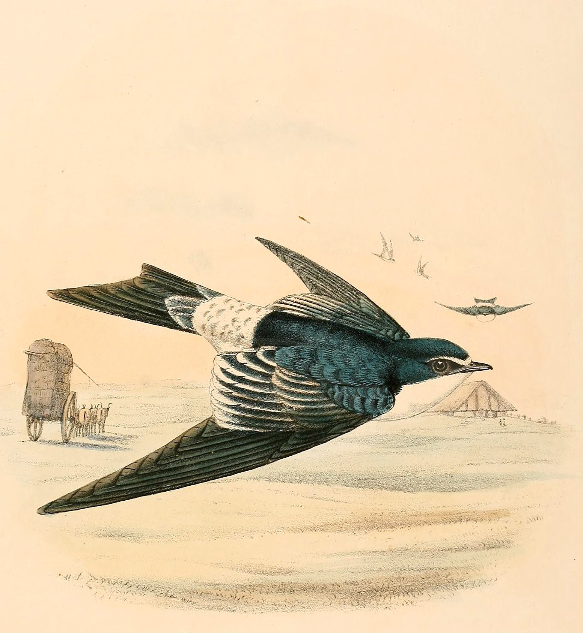 « Tachycineta leucorrhous » = Tachycineta leucorrhoa (White-rumped Swallow)